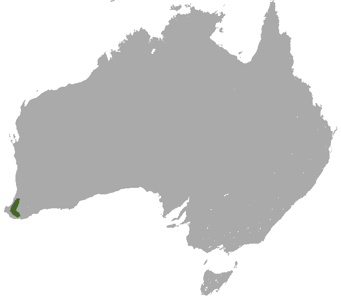 Sooty Dunnart (Sminthopsis fuliginosus) range